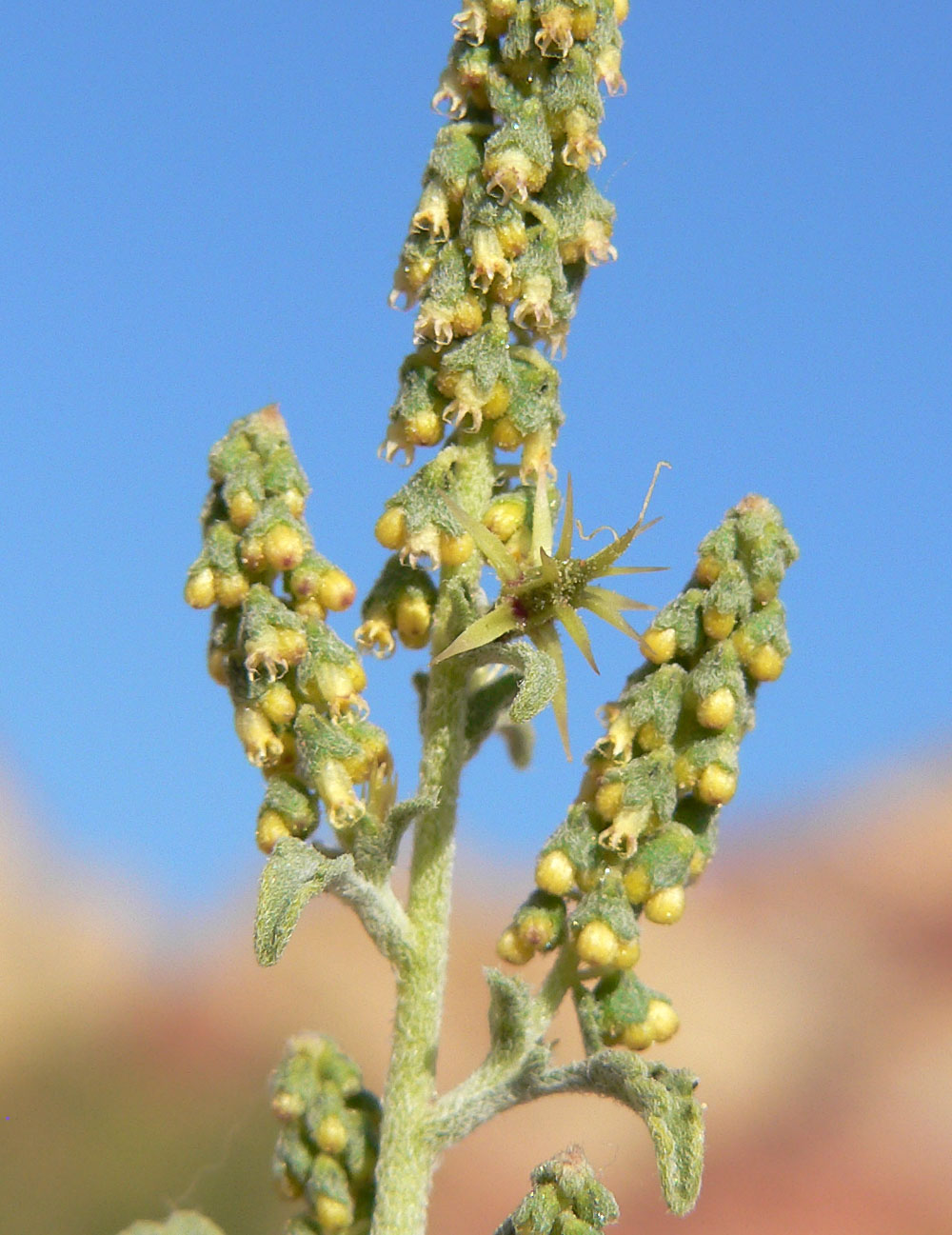 Ambrosia acanthicarpa near Ash Creek Spring, Calico Basin, Spring Mountains, southern Nevada (elev. about 1150 m)